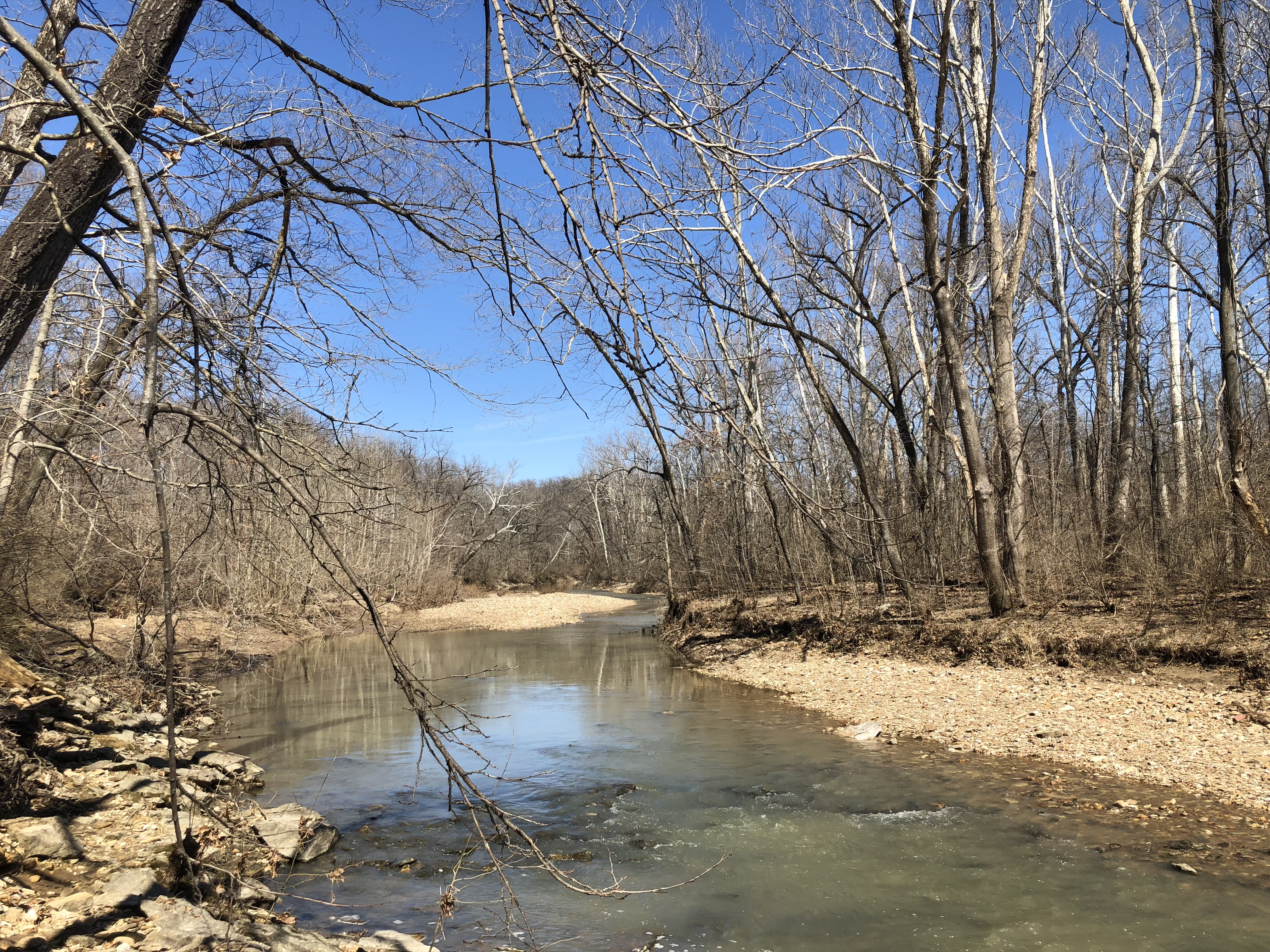 Hinkson Creek on the University of Missouri campus on March 18th 2019